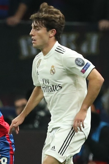 CSKA Moscow v Real Madrid, 2 October 2018